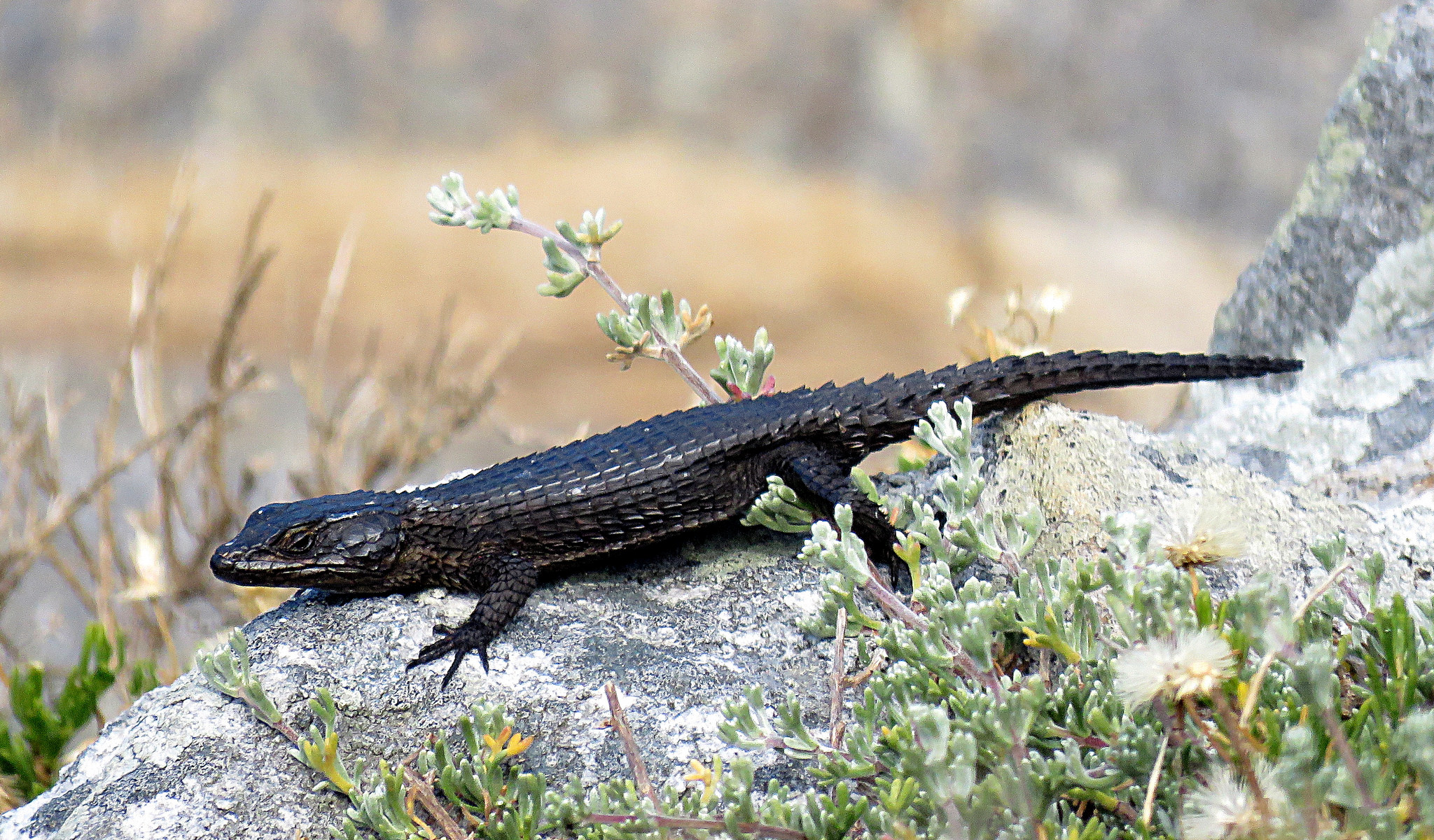 Black girdled lizard (Cordylus niger) on Table Mountain, South Africa.